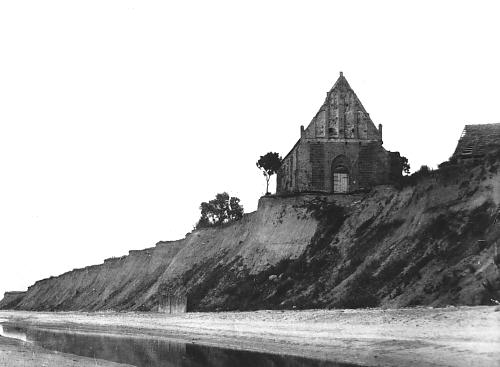 Church in Trzęsacz in 1870